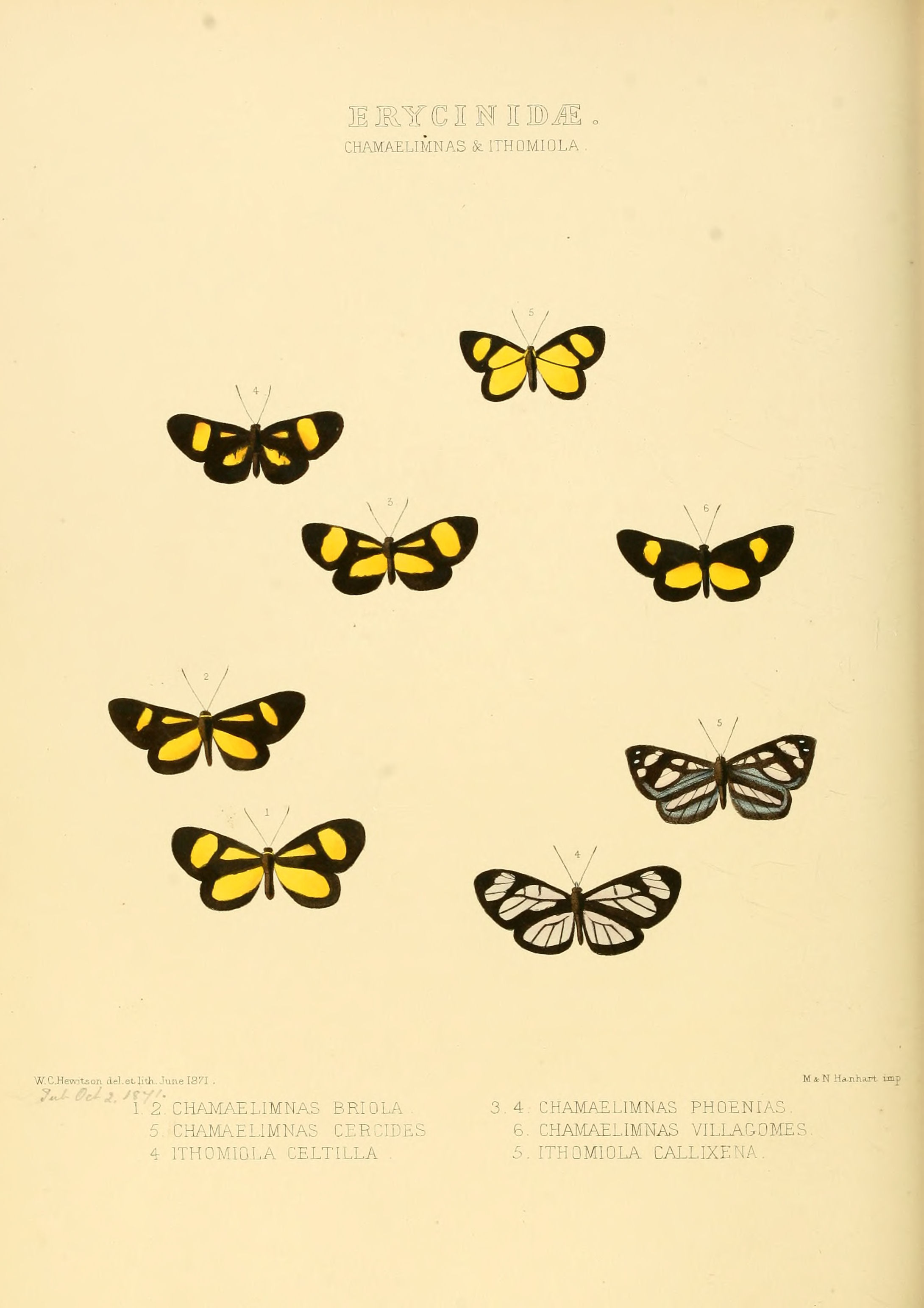 Plate: Chamaelimnas & Ithomiola Chamaelimnas briola. Figs. 1, 2. Accepted as Chamaelimnas briola Bates, 1868. Chamaelimnas phoenias. Figs. 3, 4. Accepted as Chamaelimnas briola Bates, 1868. Chamaelimnas cercides. Fig. 5. Accepted as Chamaelimnas cercides Hewitson, 1871. Chamaelimnas villagomes. Fig. 6. Accepted as Chamaelimnas briola Bates, 1868. Ithomiola celtilla. Fig. 4. Accepted as Ithomiola celtilla (Hewitson, 1870). Ithomiola callixena. Fig. 5. Accepted as Ithomiola callixena (Hewitson, 1870).